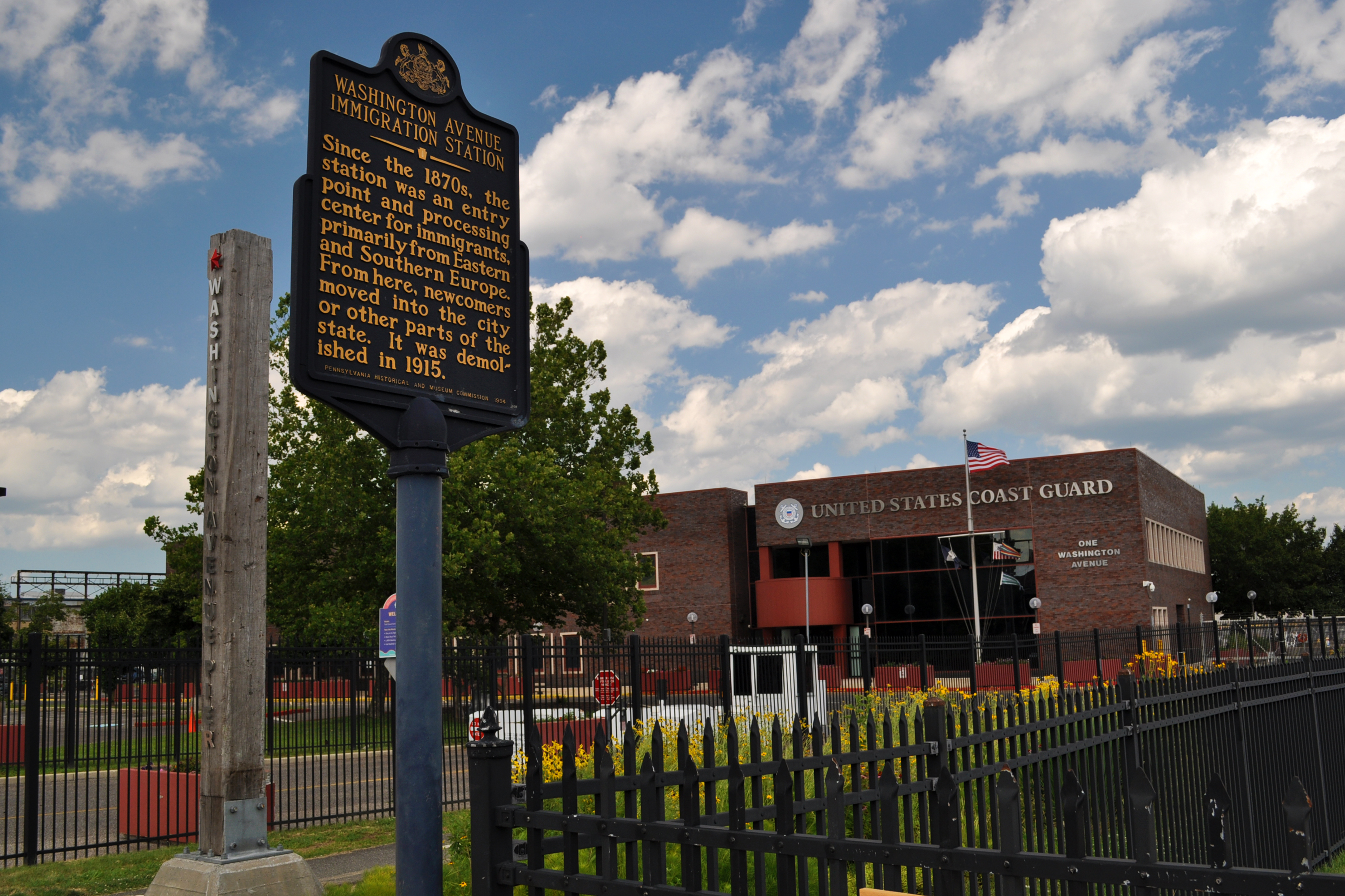 Washington Avenue Immigration Station. Since the 1870s, the station was an entry point and processing center for immigrants, primarily from Eastern and Southern Europe. From here, newcomers moved into the city or other parts of the state. It was demolished in 1915. (Historical Marker at 1 Washington Ave Philadelphia PA - PA Historical & Museum Commission 1994)